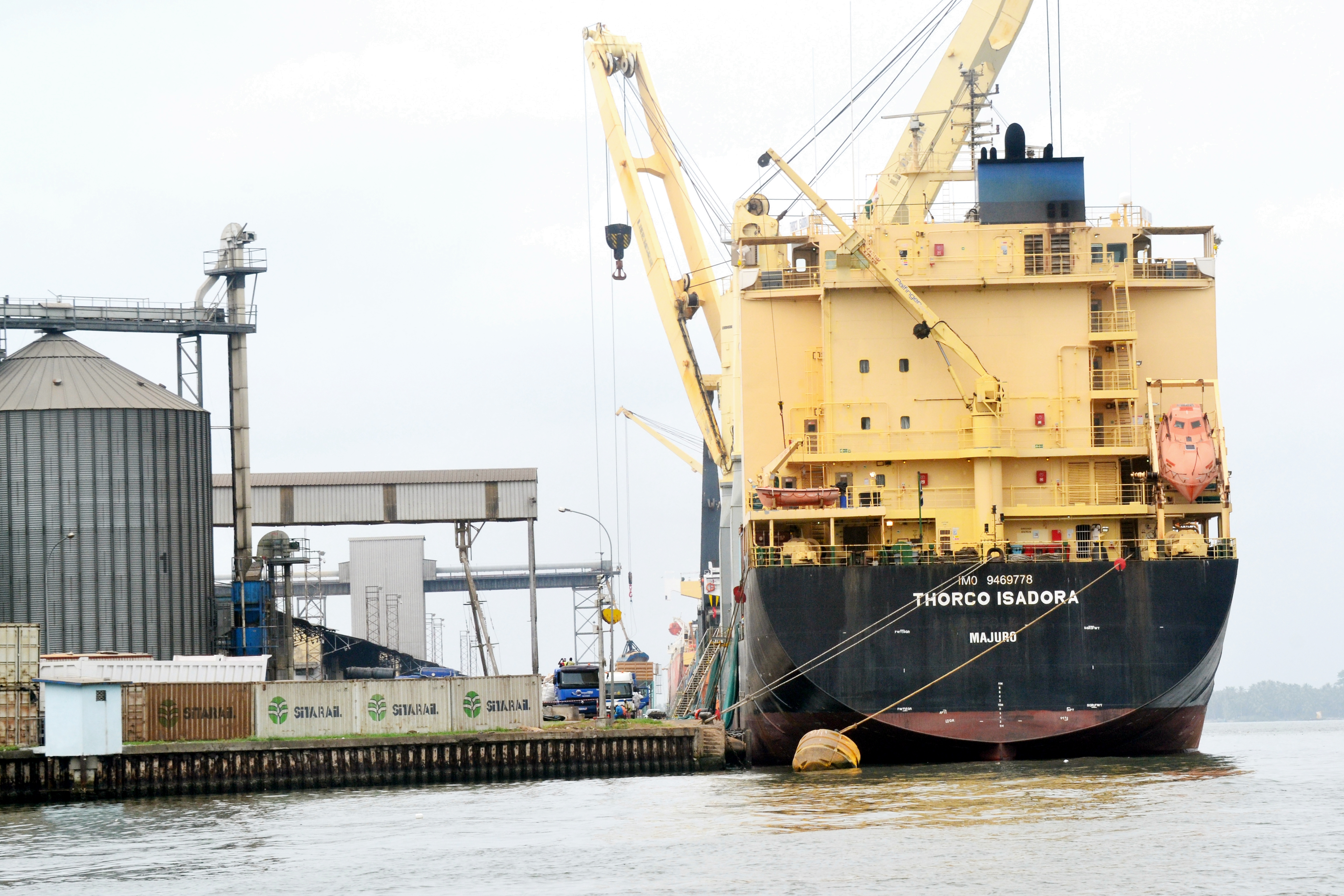 This is an image with the theme "Africa on the Move or Transport" from: Ivory Coast